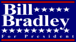 This is a logo for Bill Bradley. Further details: This is a historical logo for a defunct presidential campaign and is no longer in use.